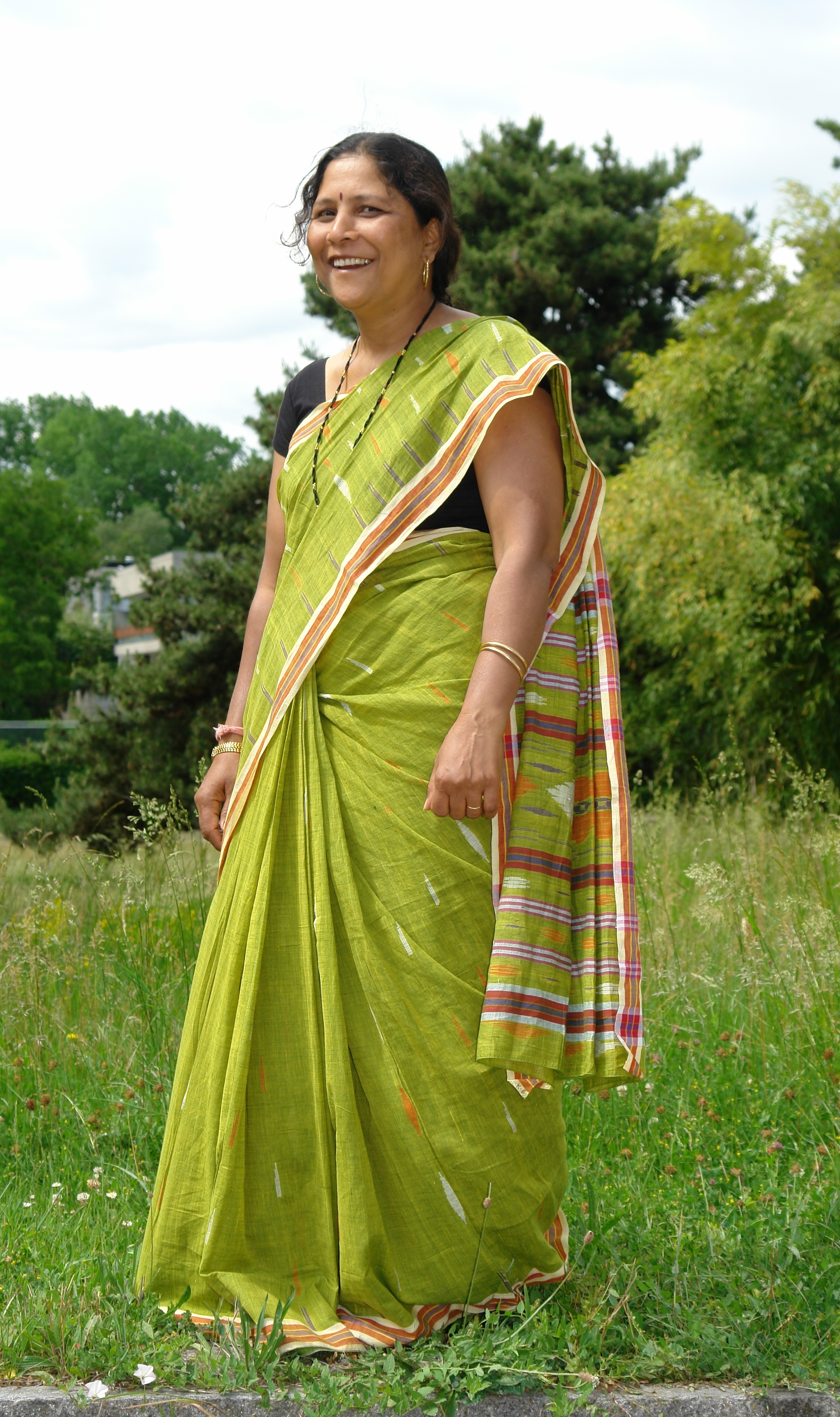 Sari. Picture taken in Europe. The model posed. Geolocalisation withheld for privacy reasons.